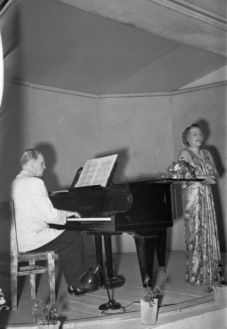 Singer Lea Piltti, who had returned from Germany, performs in the eastern Karelian isthmus in 1943. Also at the front, she is accompanied by the well-known artist Kosti Vehanen.